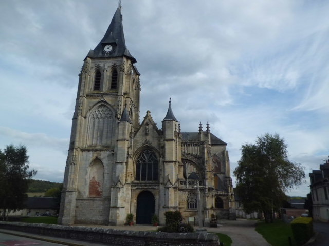 Notre-Dame church of Arques-la-Bataille, Normandy